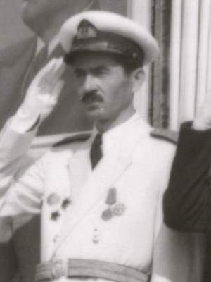 Inventarski broj:1951 011 036